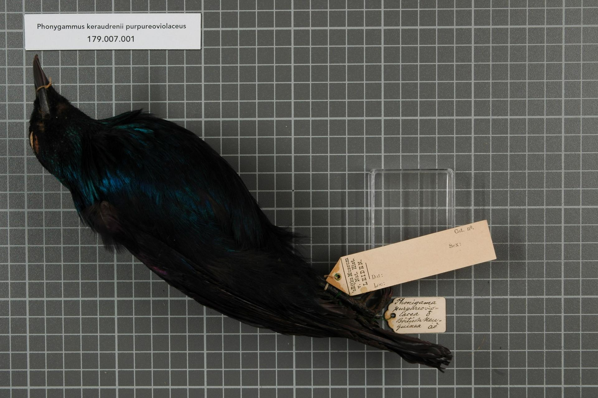 Phonygammus keraudrenii purpureoviolaceus A.B. Meyer, 1885